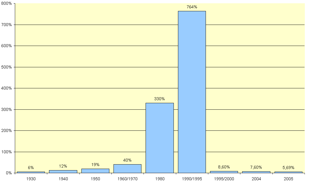 Brazilian inflation description of 1930 until 2005.